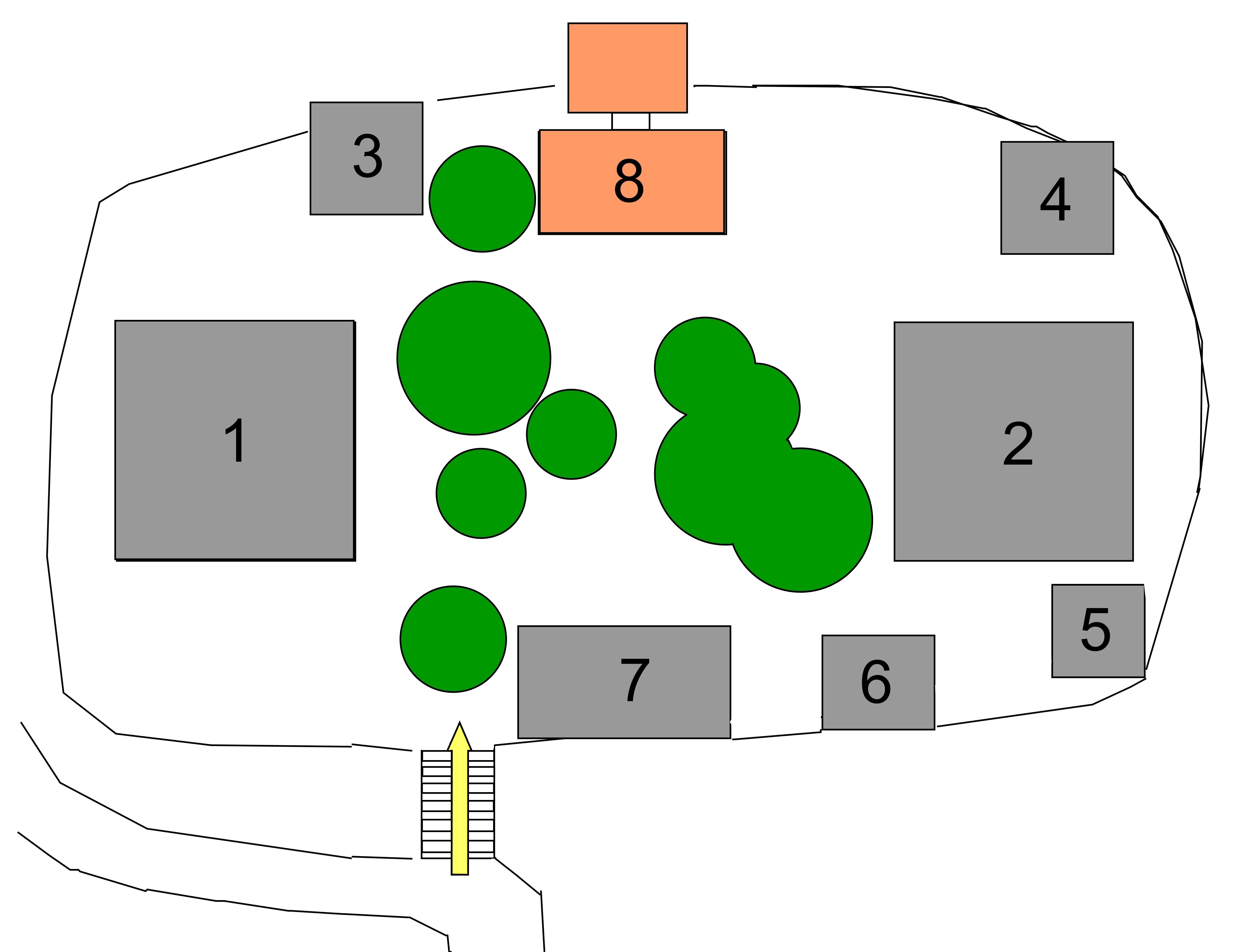 Layout of Jôdo-ji at Ono